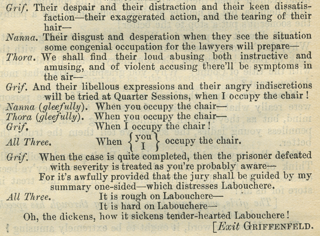 A verse of W. S. Gilbert's His Excellency with a reference to Henry Labouchère